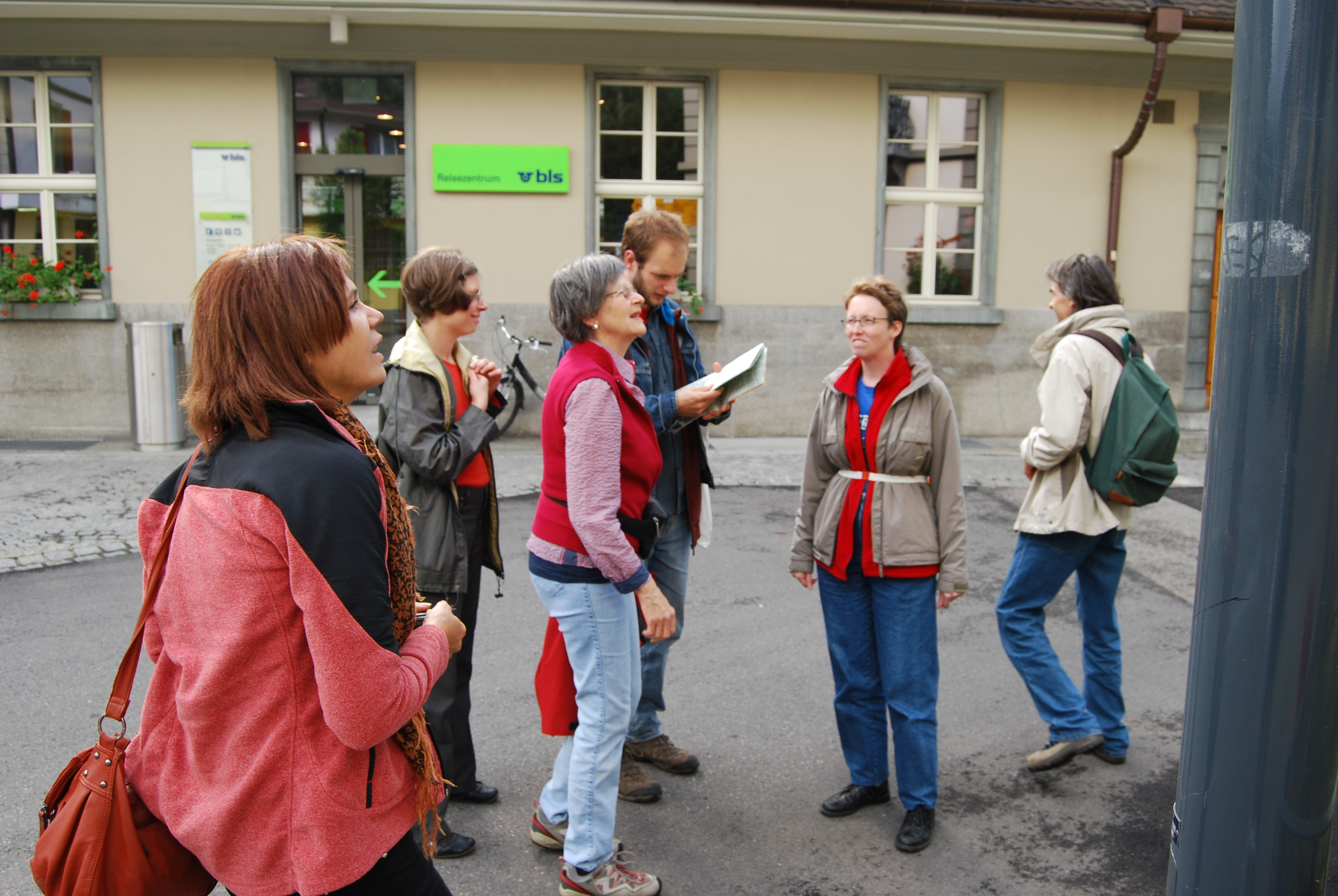 Participants of SFERO 2013 at Langnau in the Emme Valley, canton of Bern, Switzerland